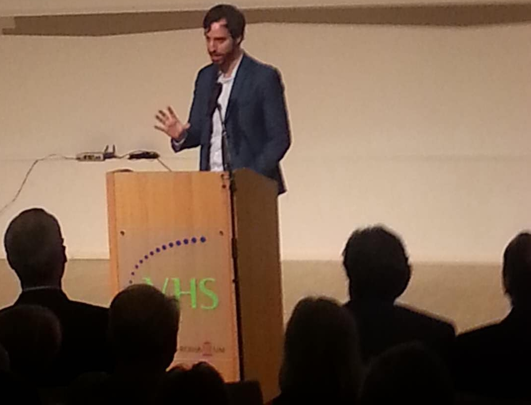 Stephan Scheuer Speech 2 China Day Neuss 2019